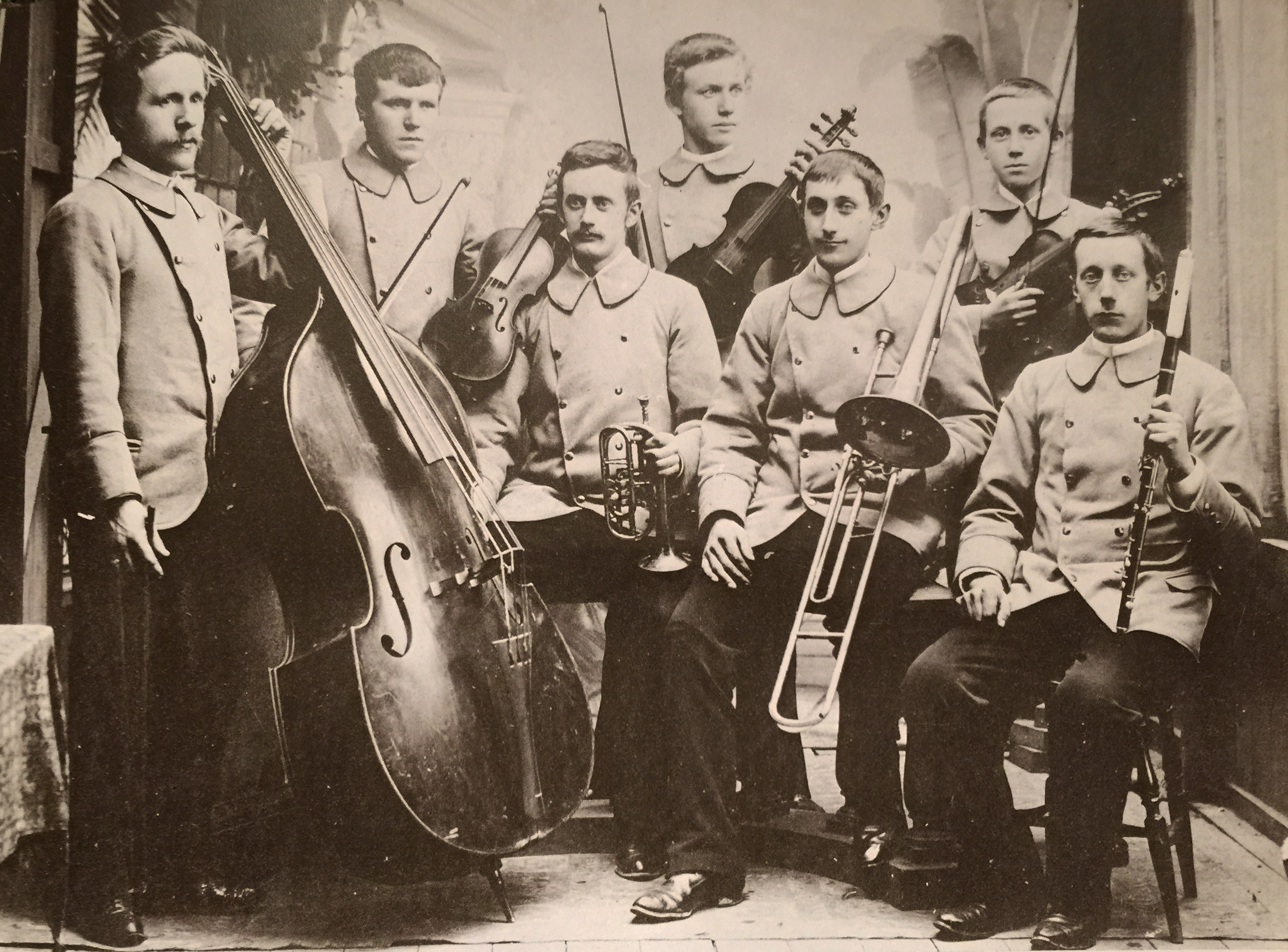 The amateur orchestra Sandnæs Strygeorkester (Sandnæs String Orchestra) was formed in 1895 in Sandnes, Norway. It was one of the precursors of Sandnes Symfoniorkester. Musicians, left to right: Ole Seland, Joh. Vagle, Magnus Nygård, Thorvald Oftedal,Gotfred Torgersen, Sven Oftedal and Ingvald Torgersen